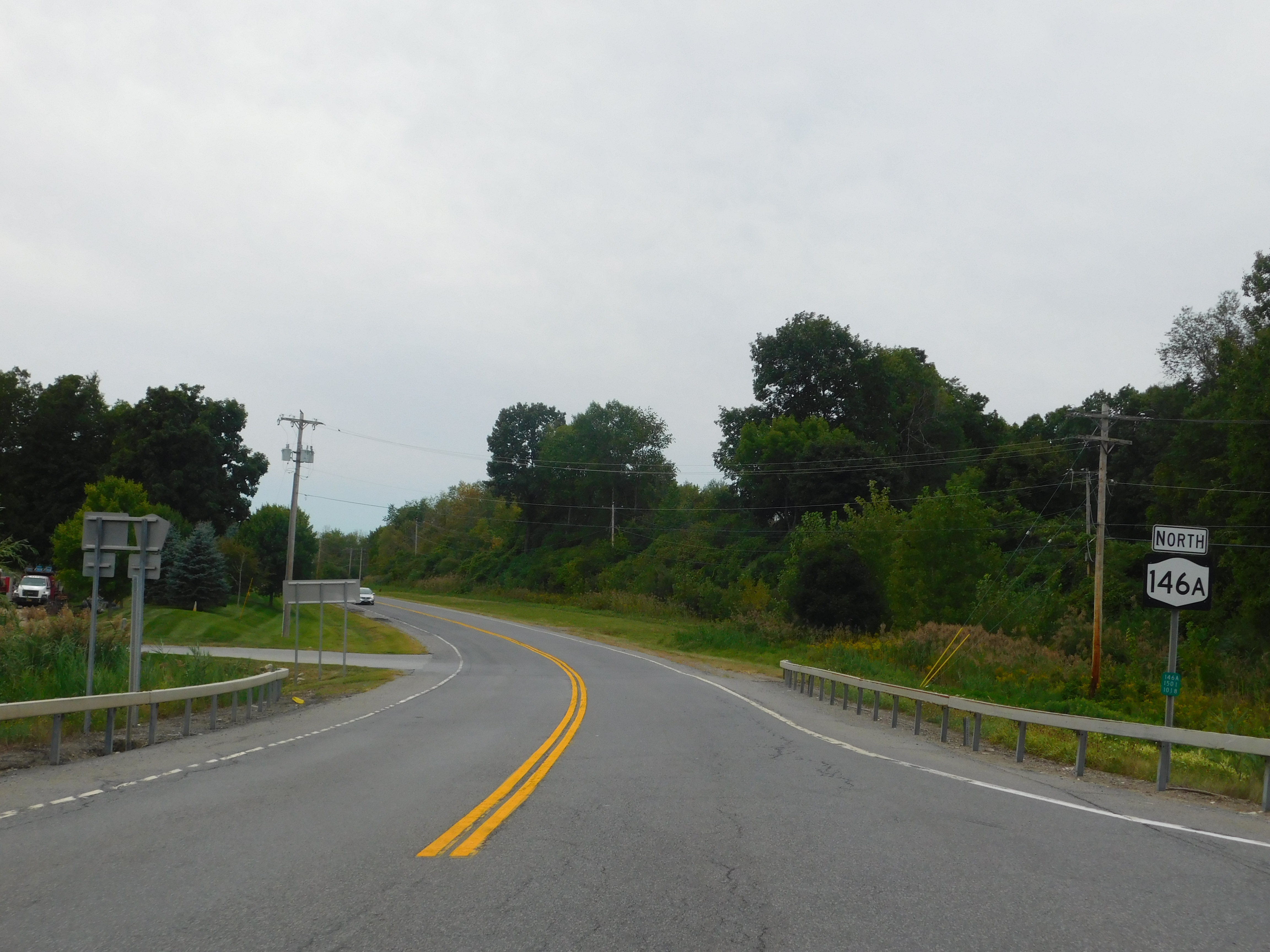 NY 146A northbound in Ballston, New York.